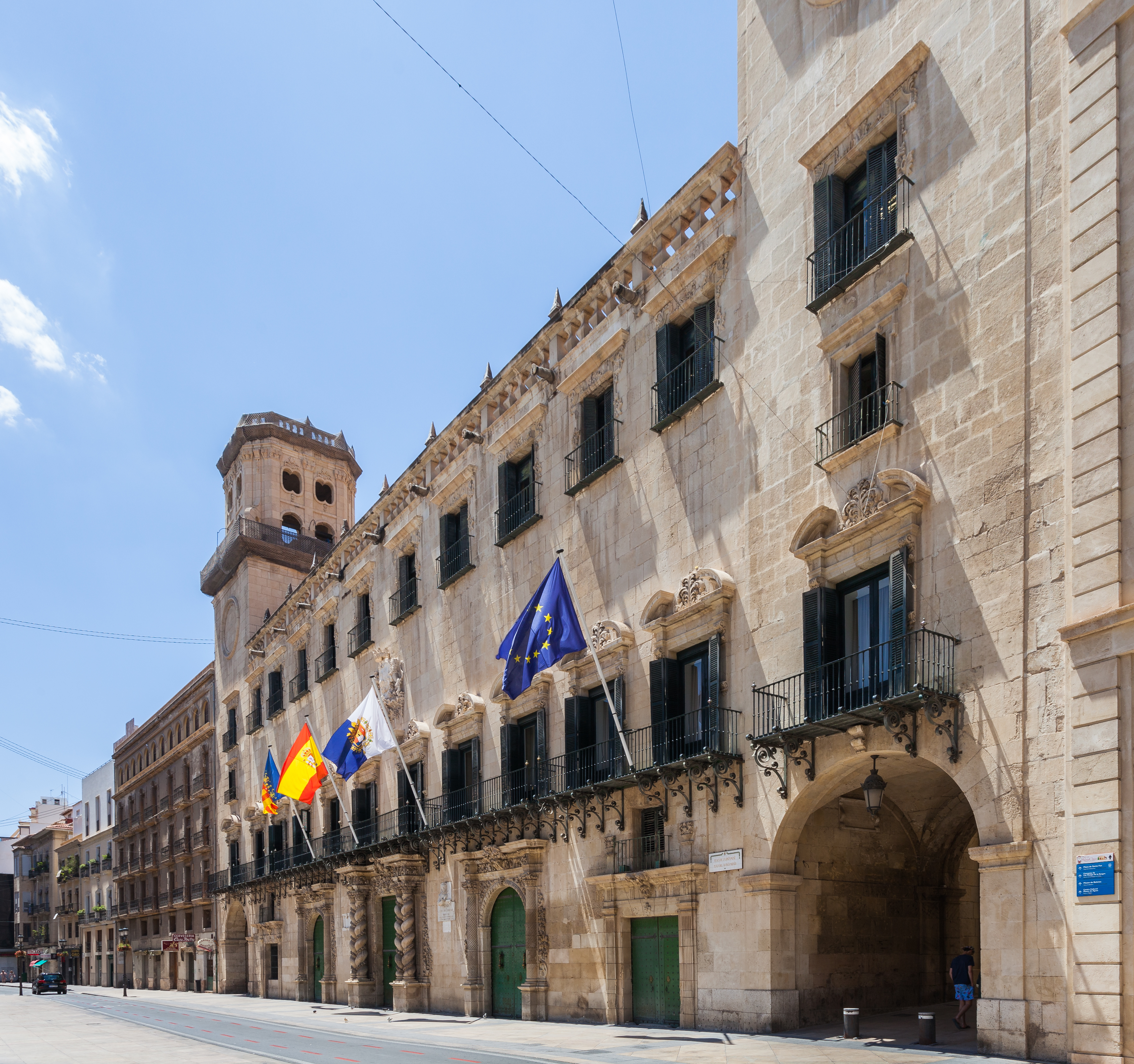 Alicante town hall, Spain.